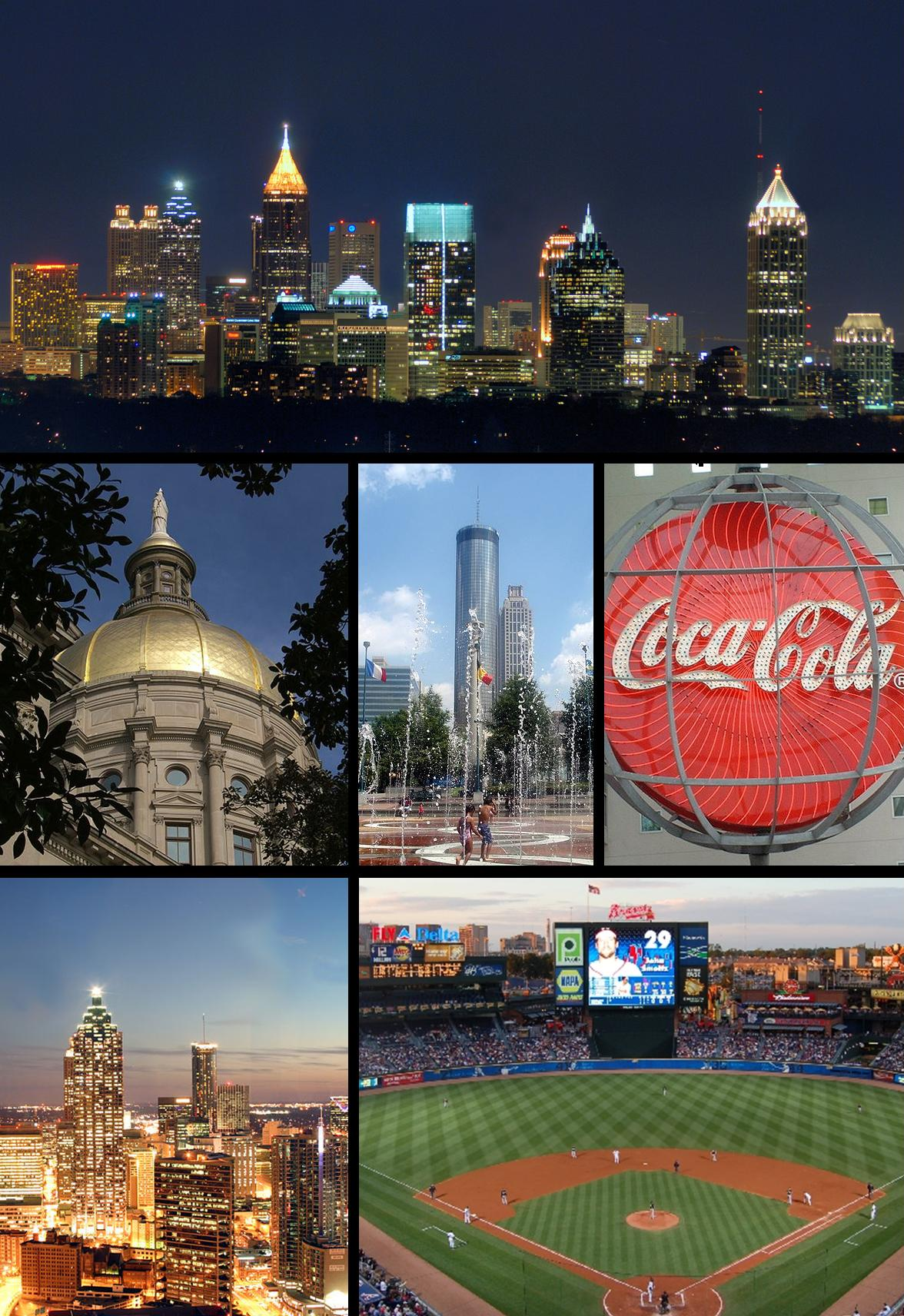 Montage of Atlanta images. From top to bottom left to right: Atlanta skyline Georgia State Capitol Olympic Centennial Park Old World of Coca-Cola museum Downtown skyline Turner Field